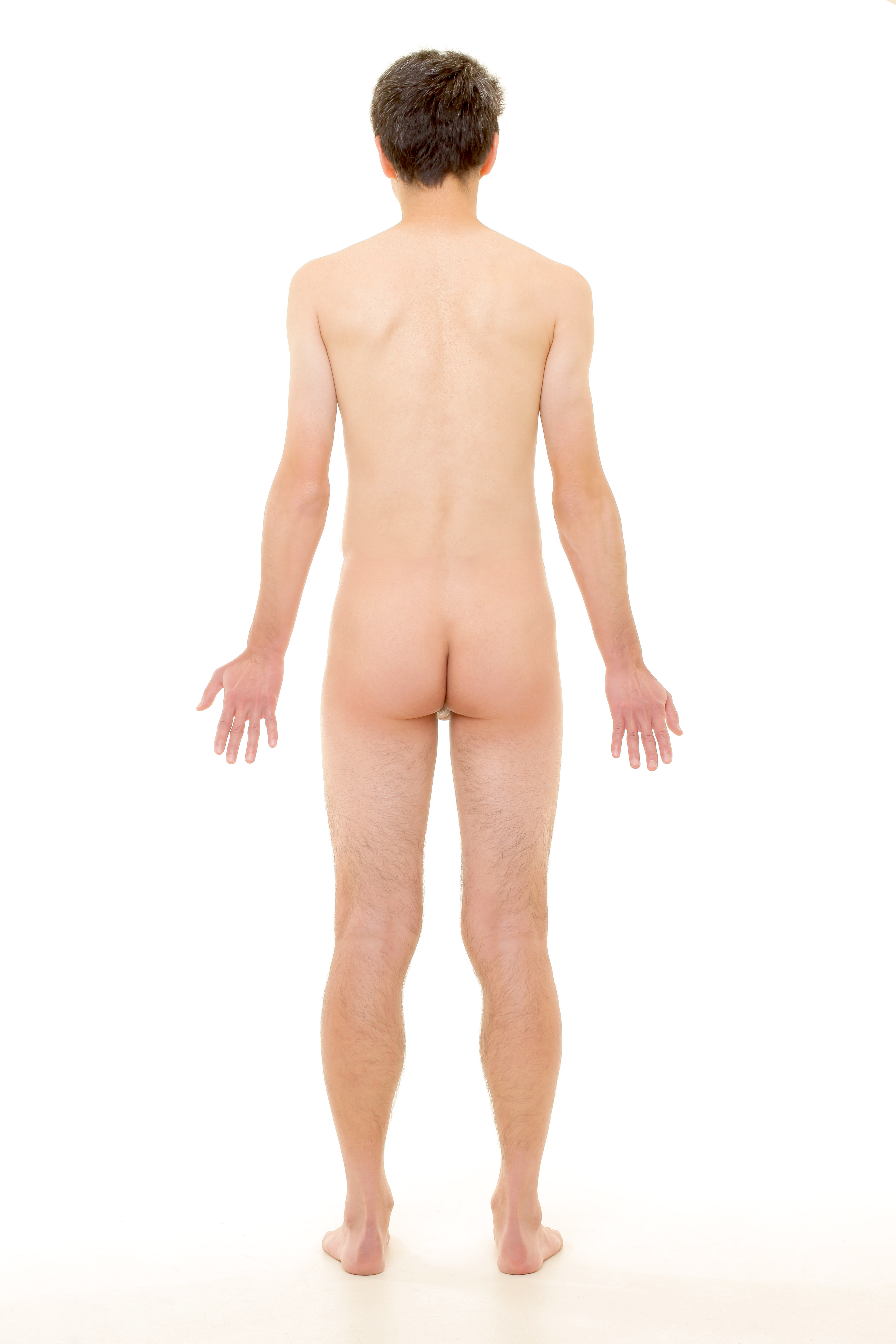 Naked male human body